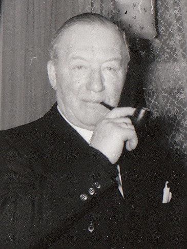 Owner of the famous Norwegian church organ factory "Jørgensens orgelfabrikk" Josef Hilmar Jørgensen pictured in 1960 at August's 70 years birthday.